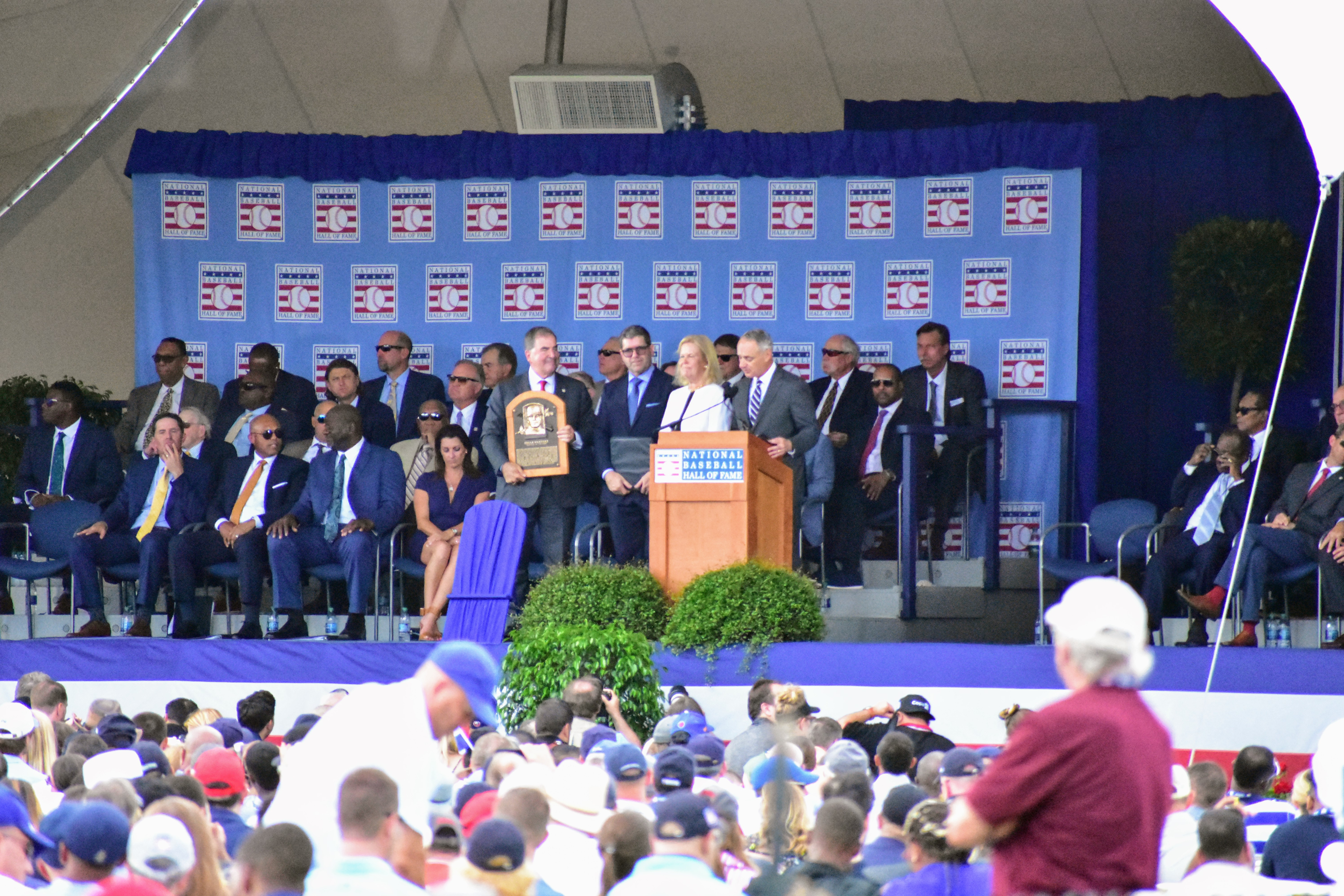 Former MLB player Edgar Martínez is presented with his plaque during the induction ceremony to the National Baseball Hall of Fame on July 21, 2019